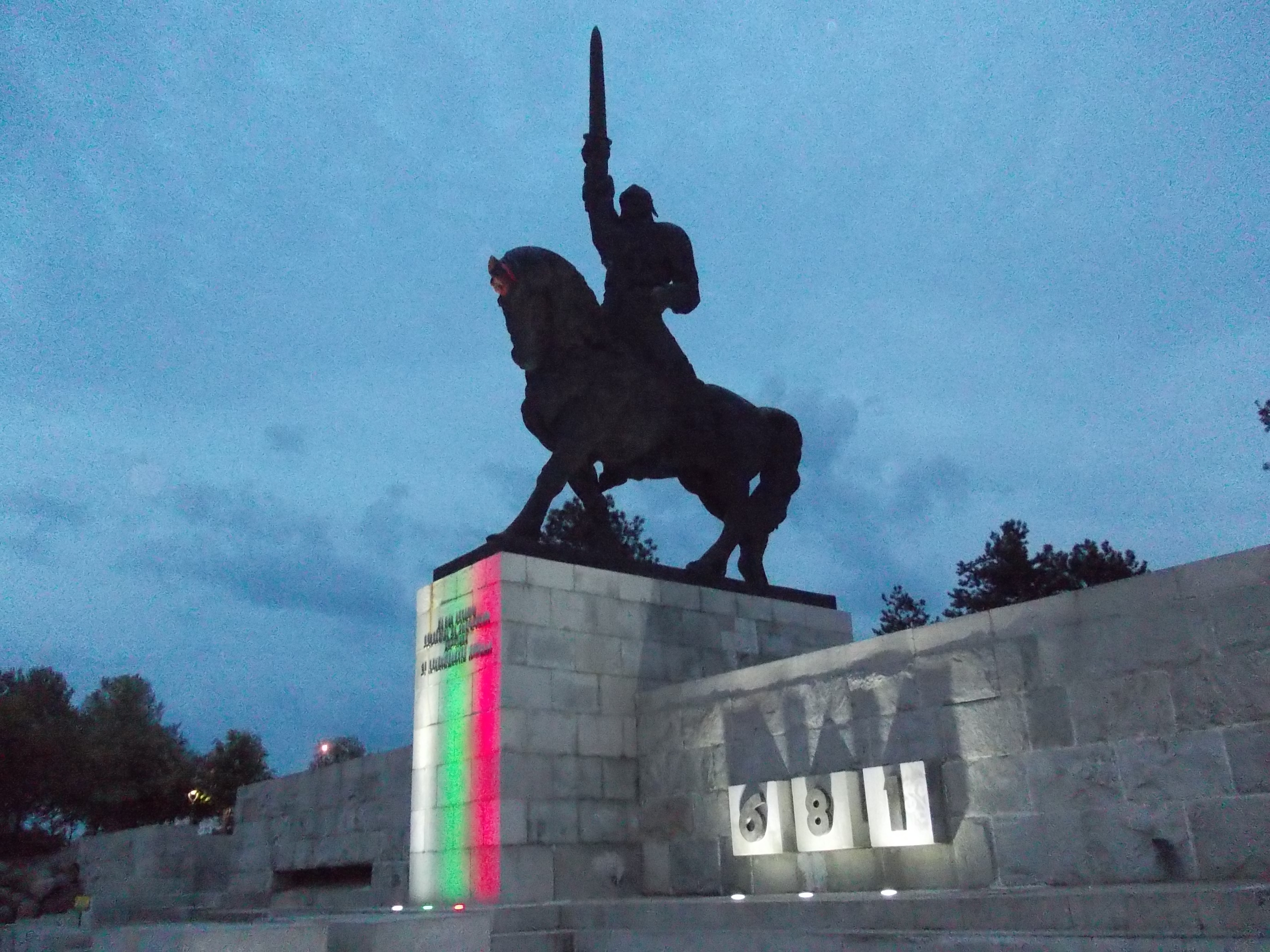 The monument of Chan Asparuch (хан Аспарух) in Dobrich, Bulgaria after the resturation.